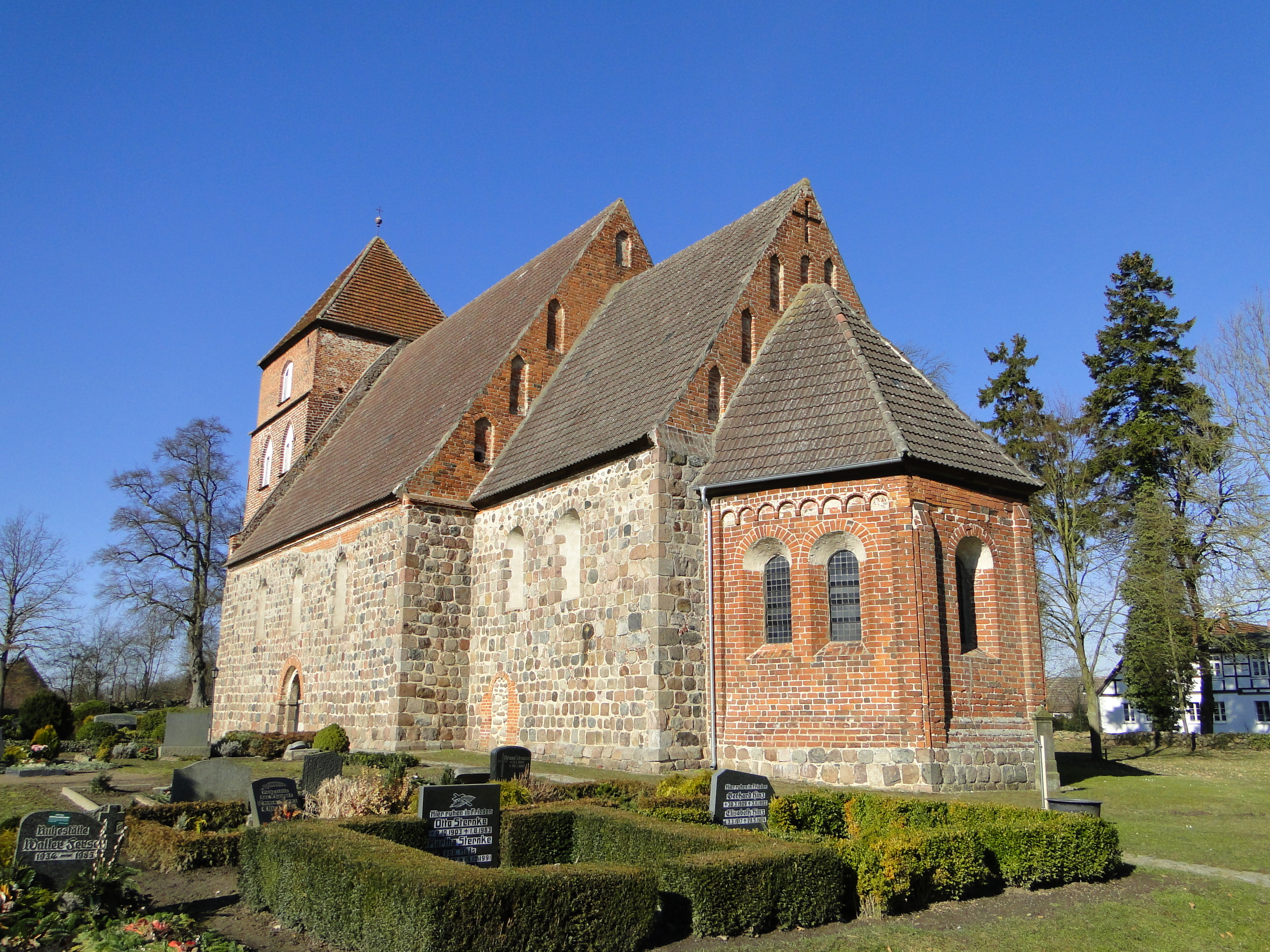 Church in Benthen, district Ludwigslust-Parchim, Mecklenburg-Vorpommern, Germany